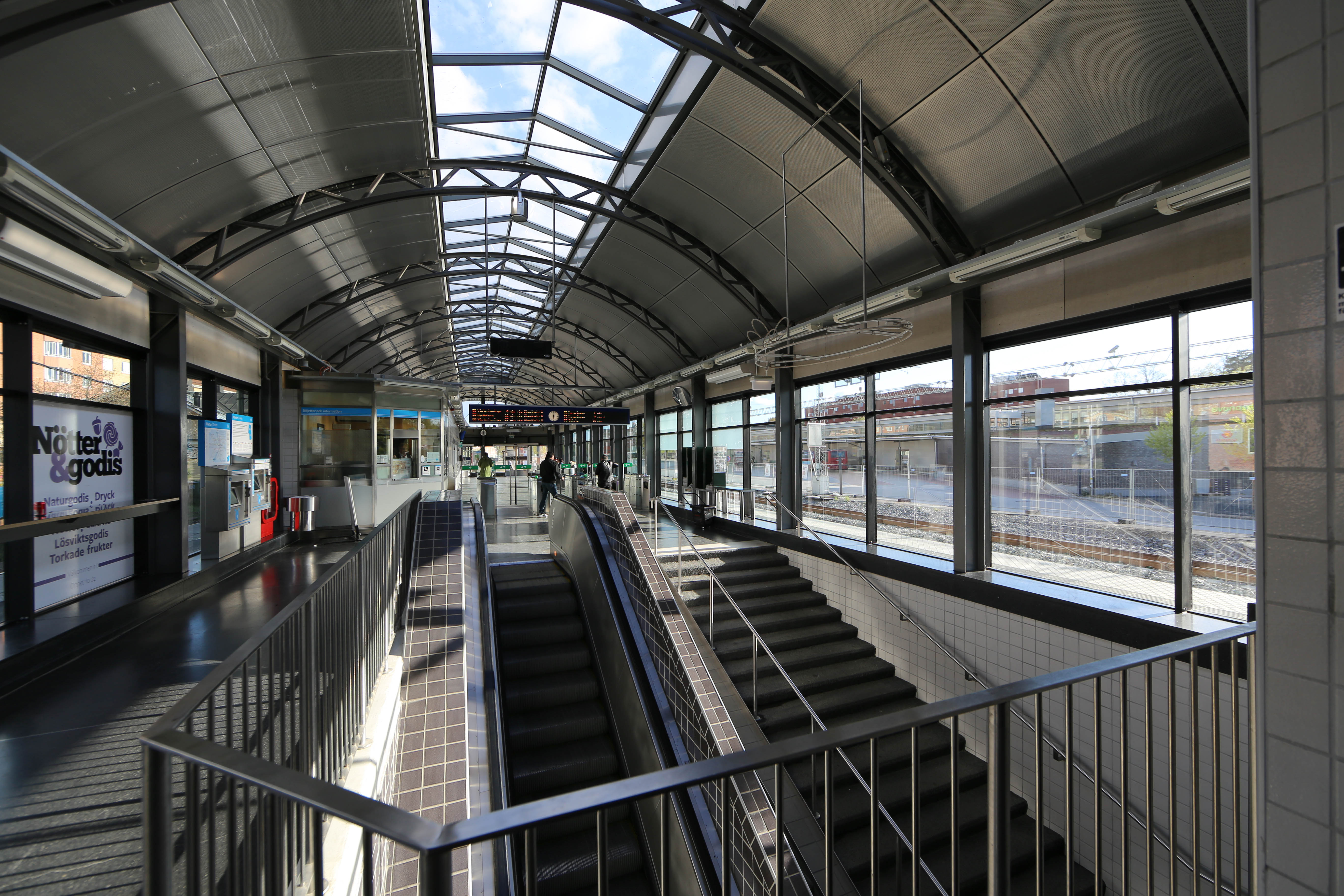 Jakobsberg station, Stockholm county